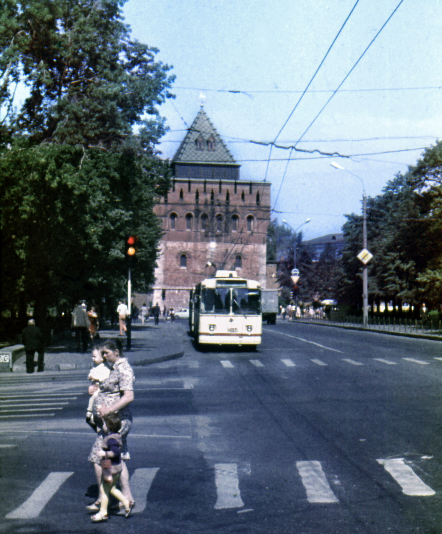 Gorky City. Minin & Pozharsky Square